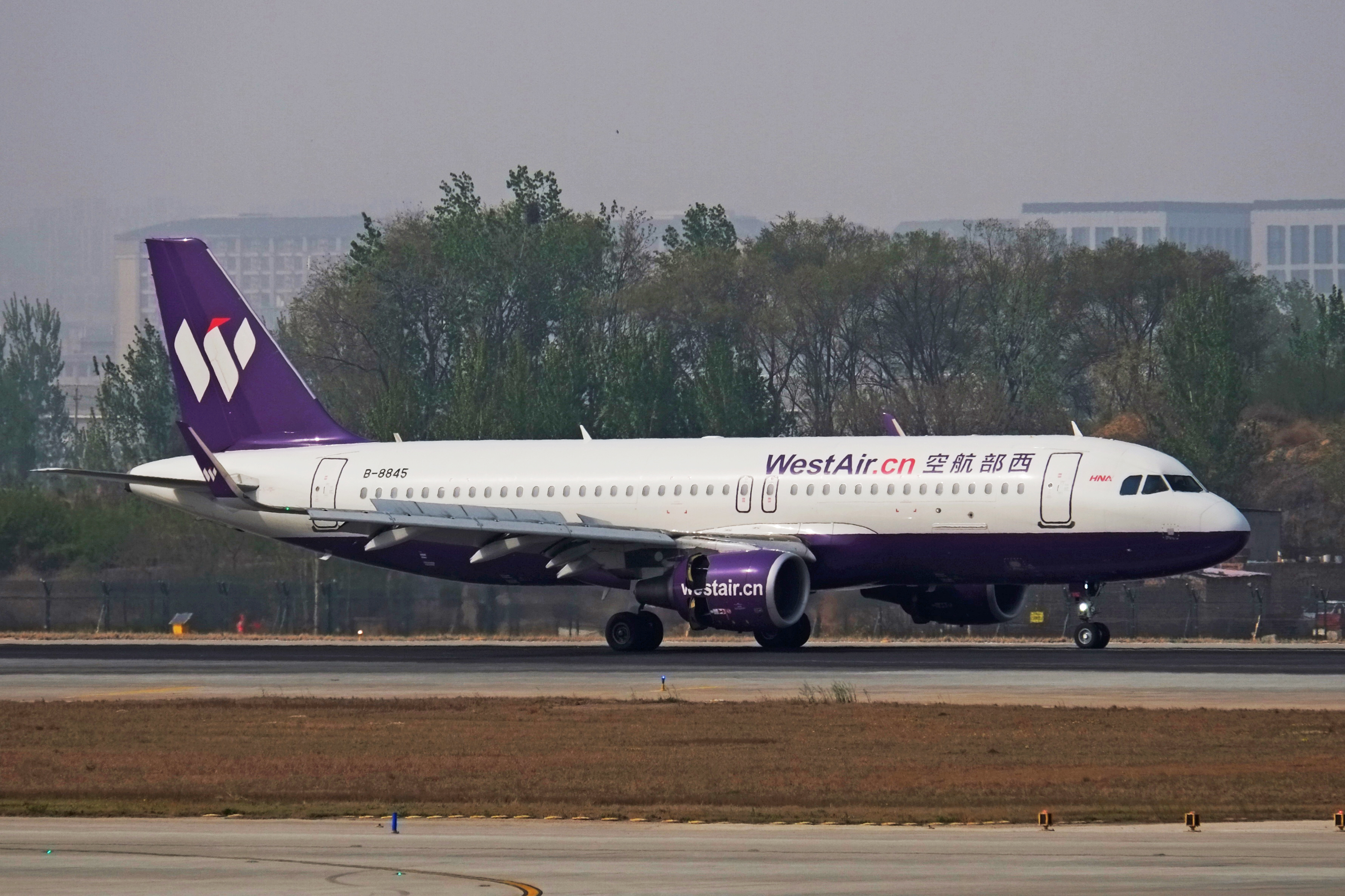 B-8845 on flight PN6310 from Korla landing at CGO